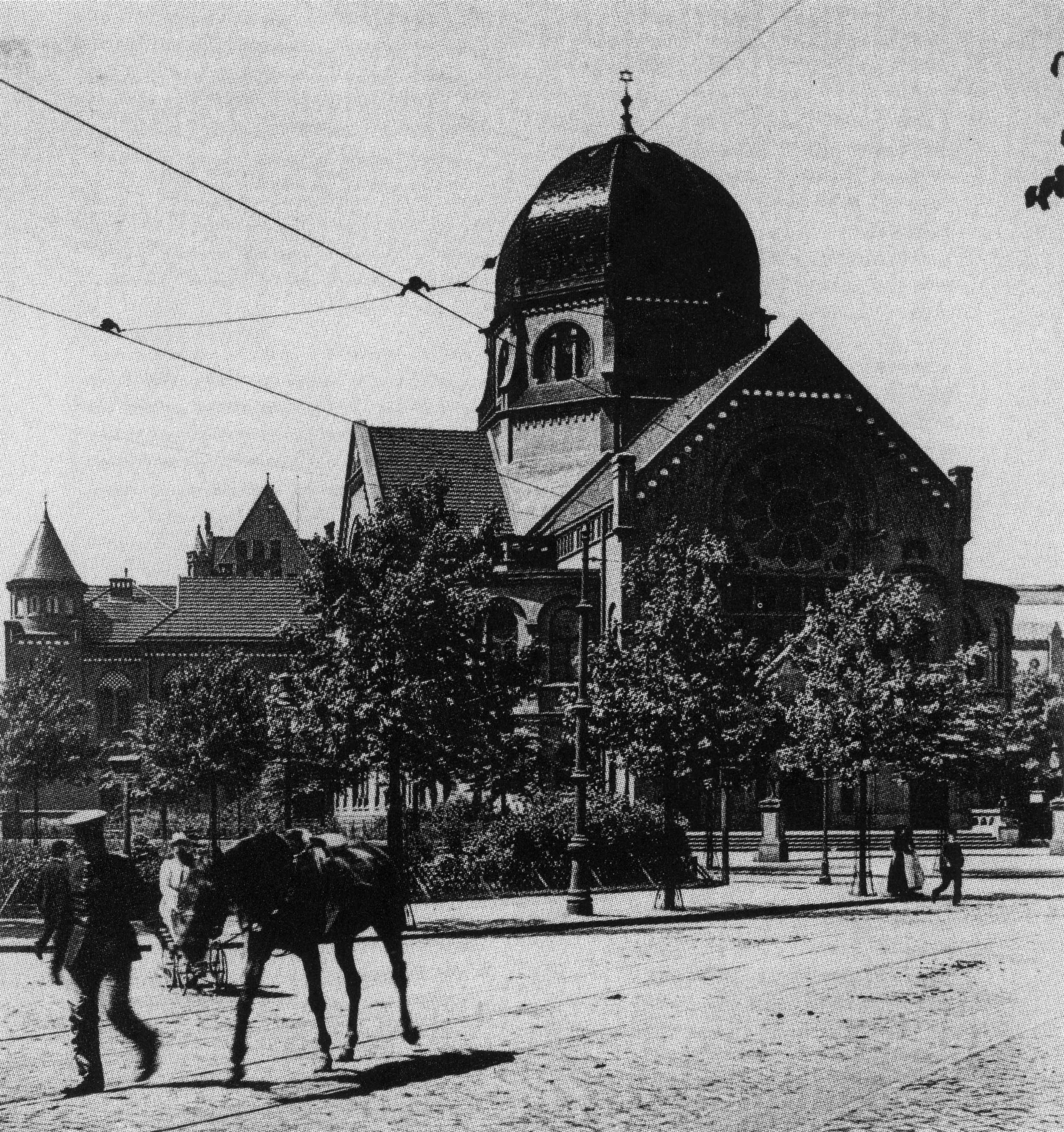 Main synagogue at Bornplatz in Hamburg, Germany.